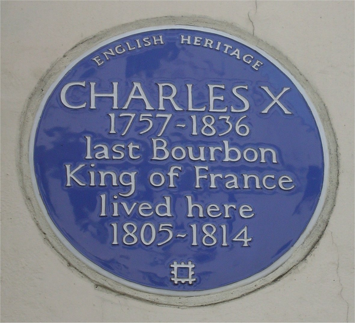 Blue plaque to Charles X of France on his house (1805-1814) at 72 South Audley Street, London, England. Photographed by me 29 September 2006. Oosoom